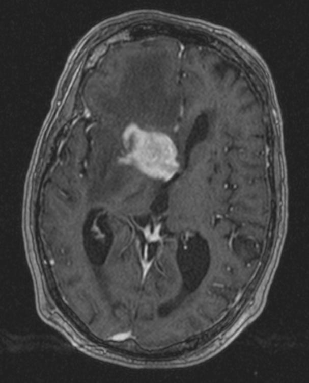 Primary CNS Lymphoma, MRI, T1 axial